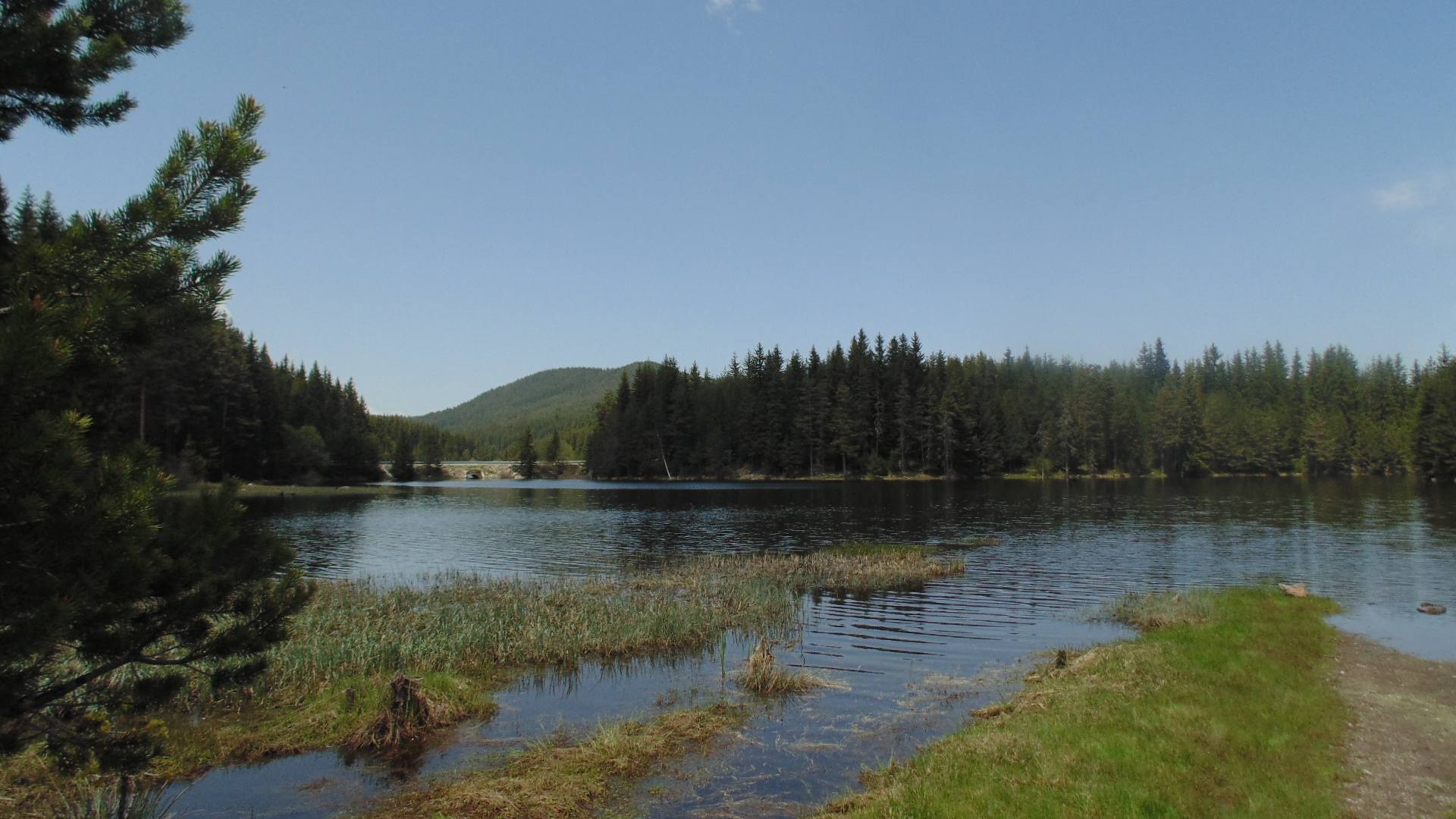 Shiroka Polyana Dam